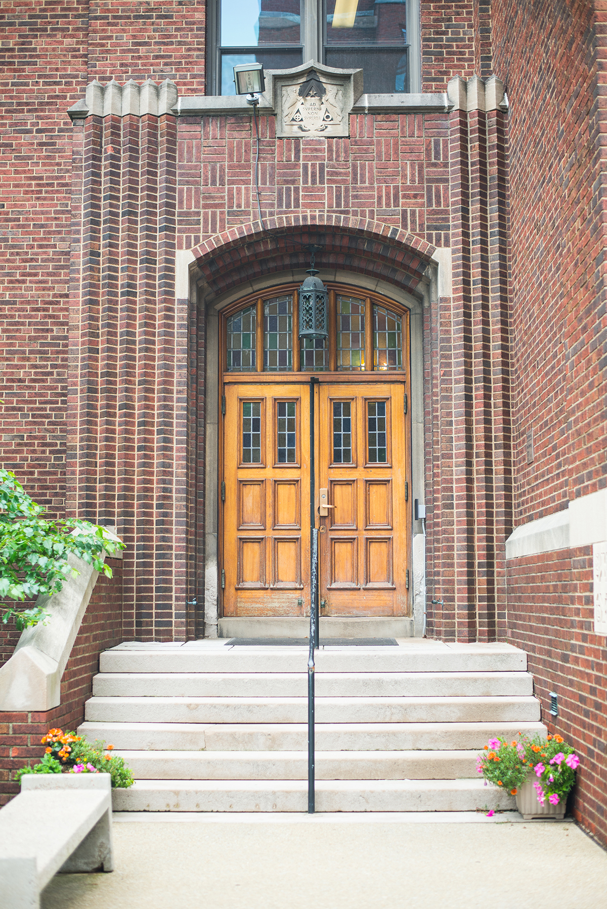 Carlow University Aquinas Hall main entrance